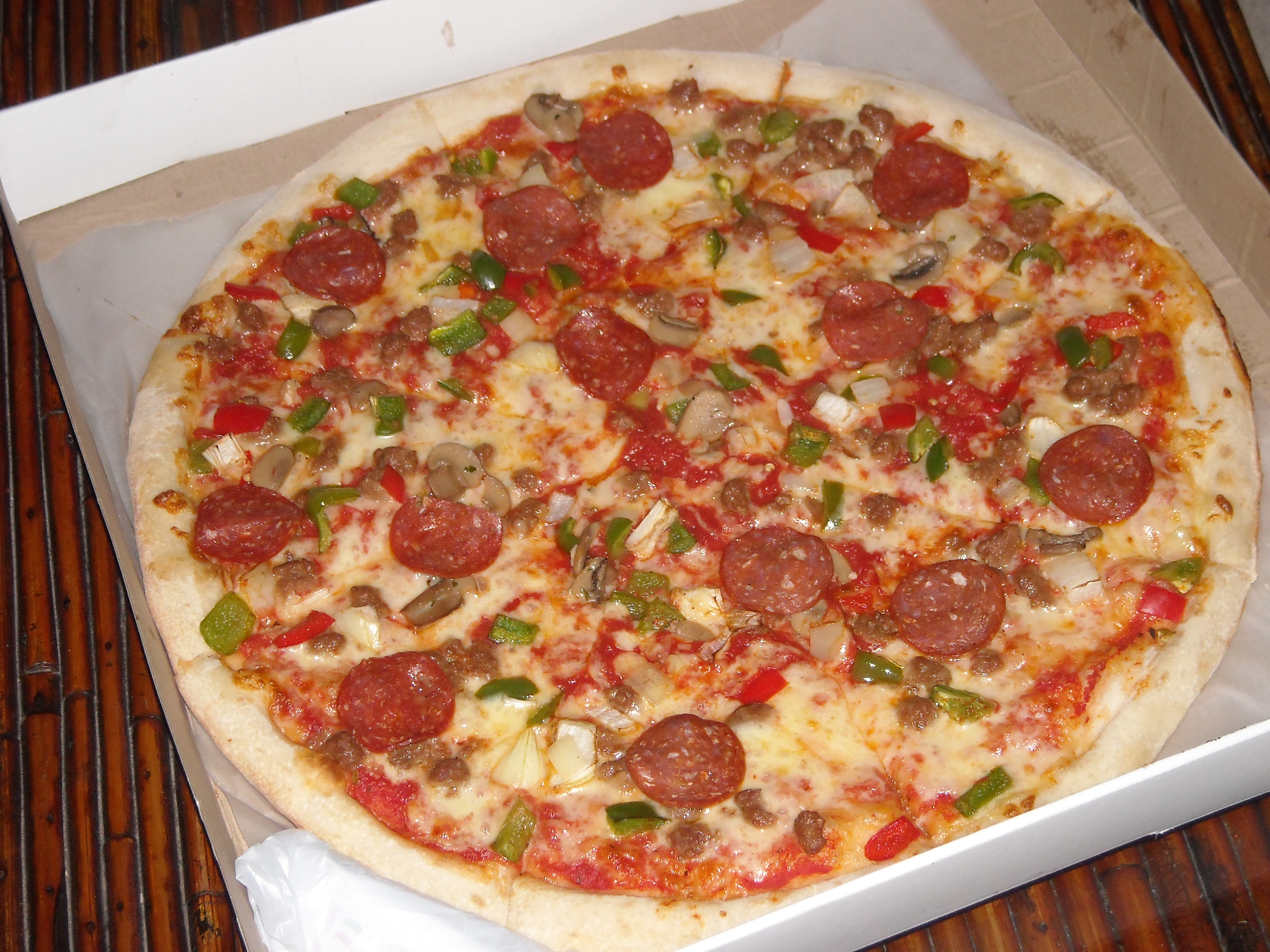 A Sbarro New York-style supreme pizza that I bought for about $15.